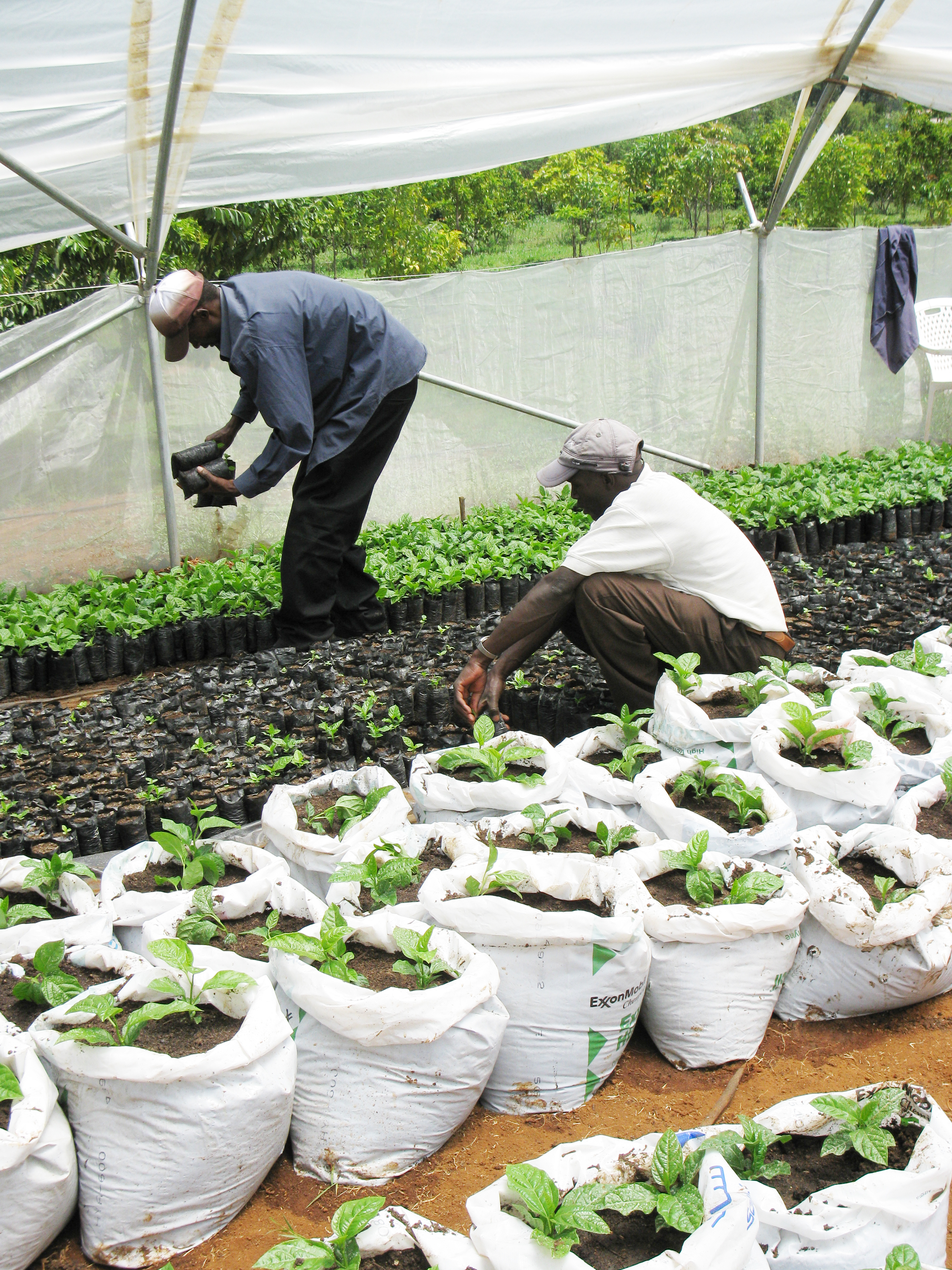 Eldoret, Kenya